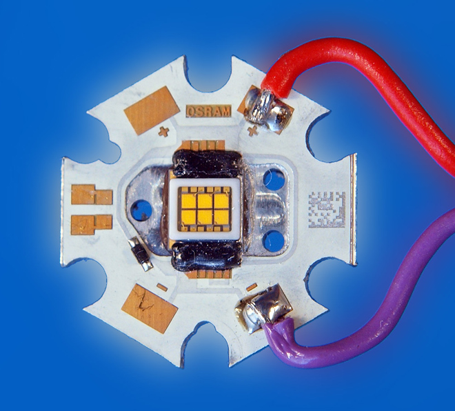 High Power LED "OSTAR" from OSRAM with 18 W power